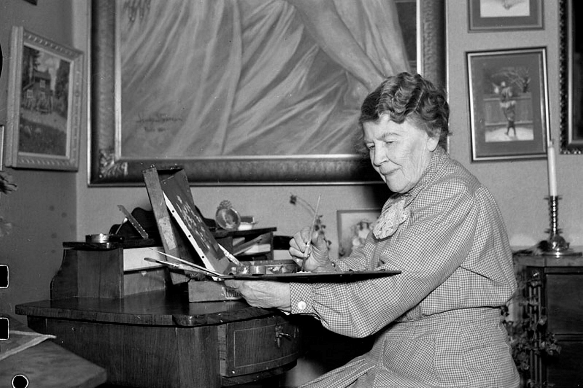 Swedish artist Jenny Nyström at her desk in her home.